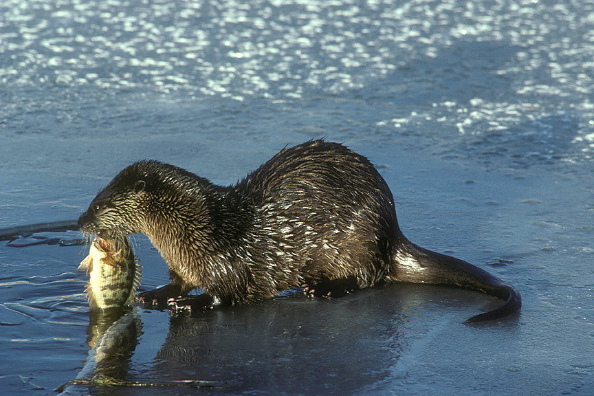 River Otter with Fish, in California.